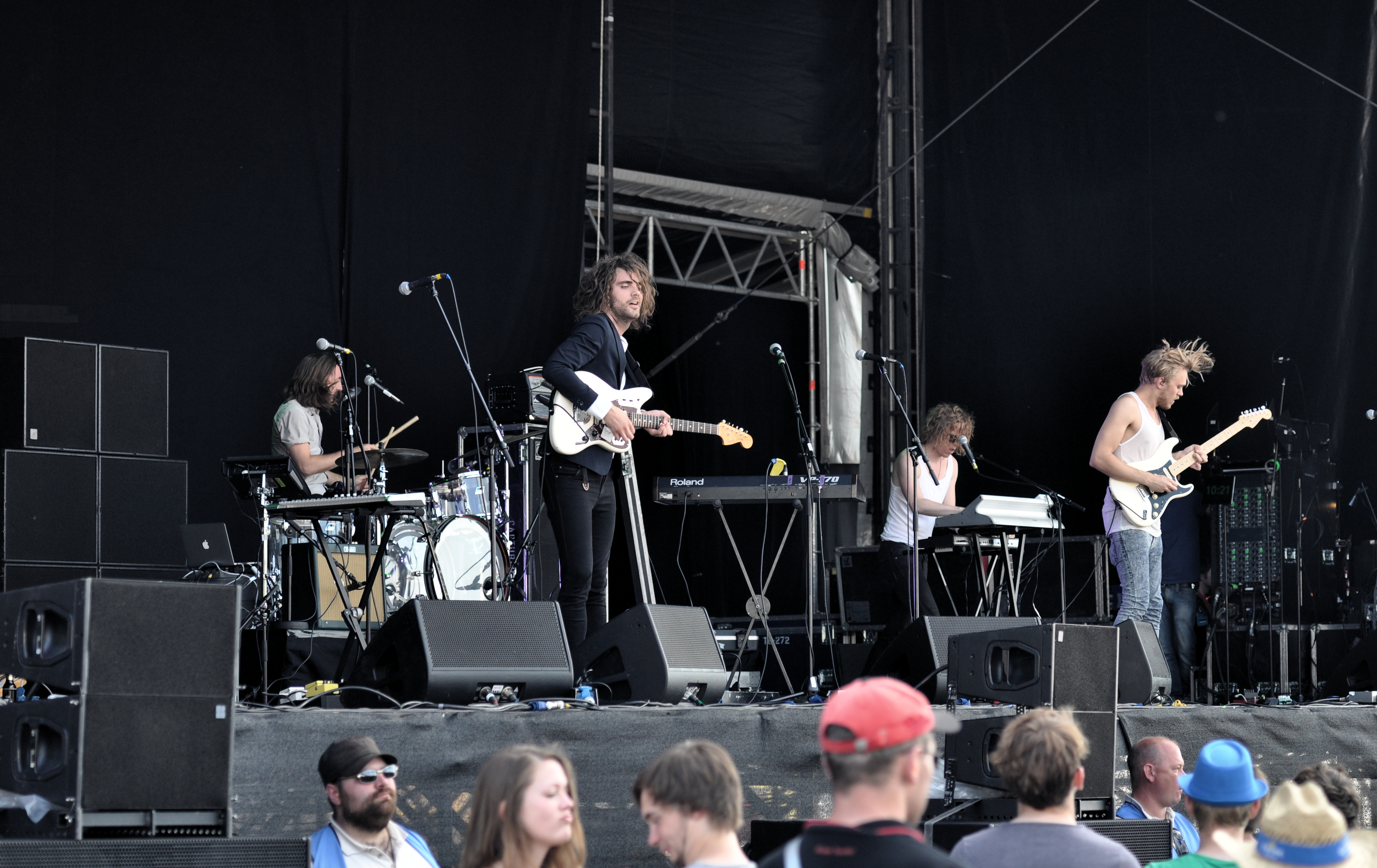 The Royal Concept at Rock am Ring 2013